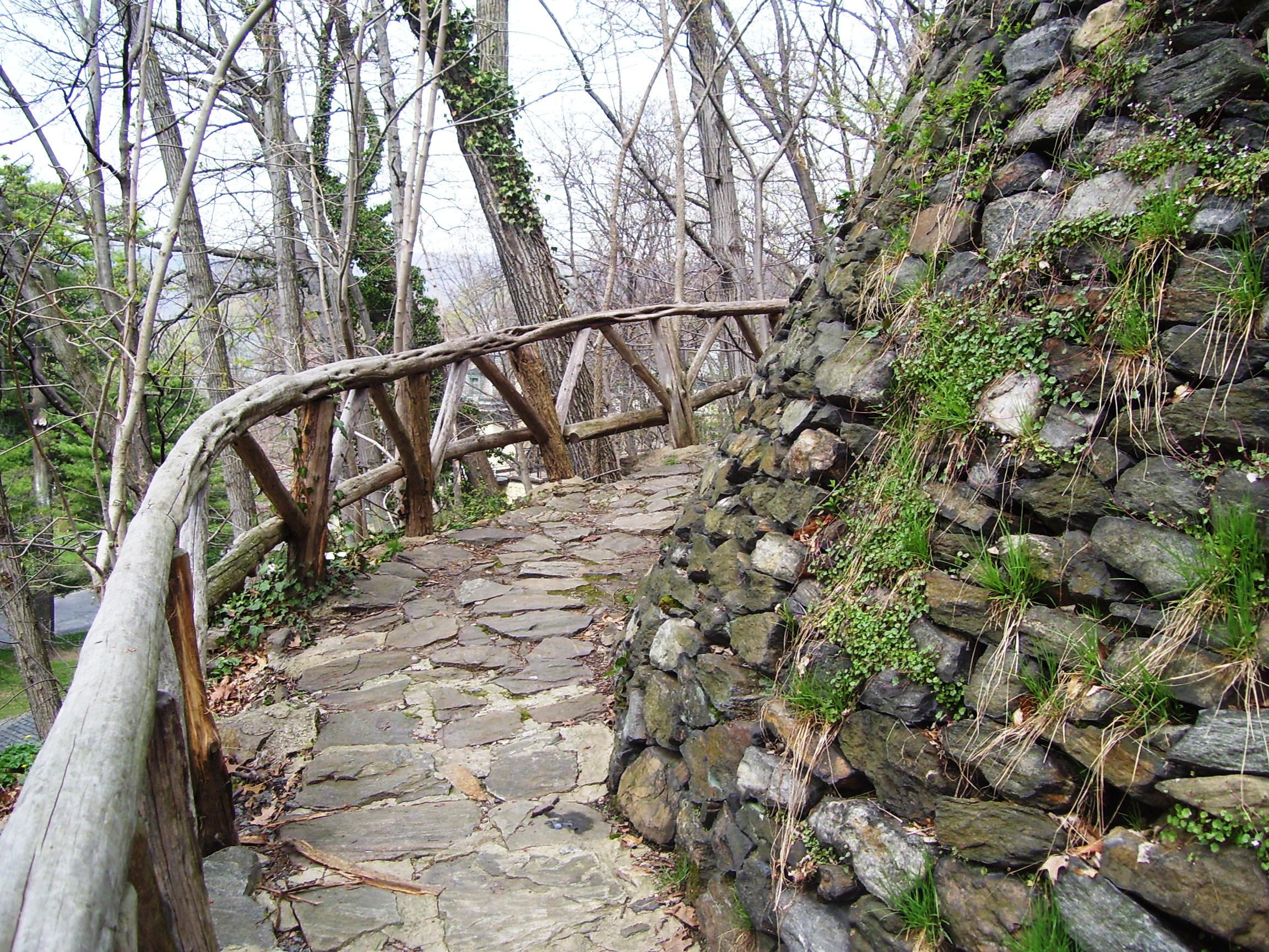 Part of the woodland path at Wave Hill in the Bronx, New York City